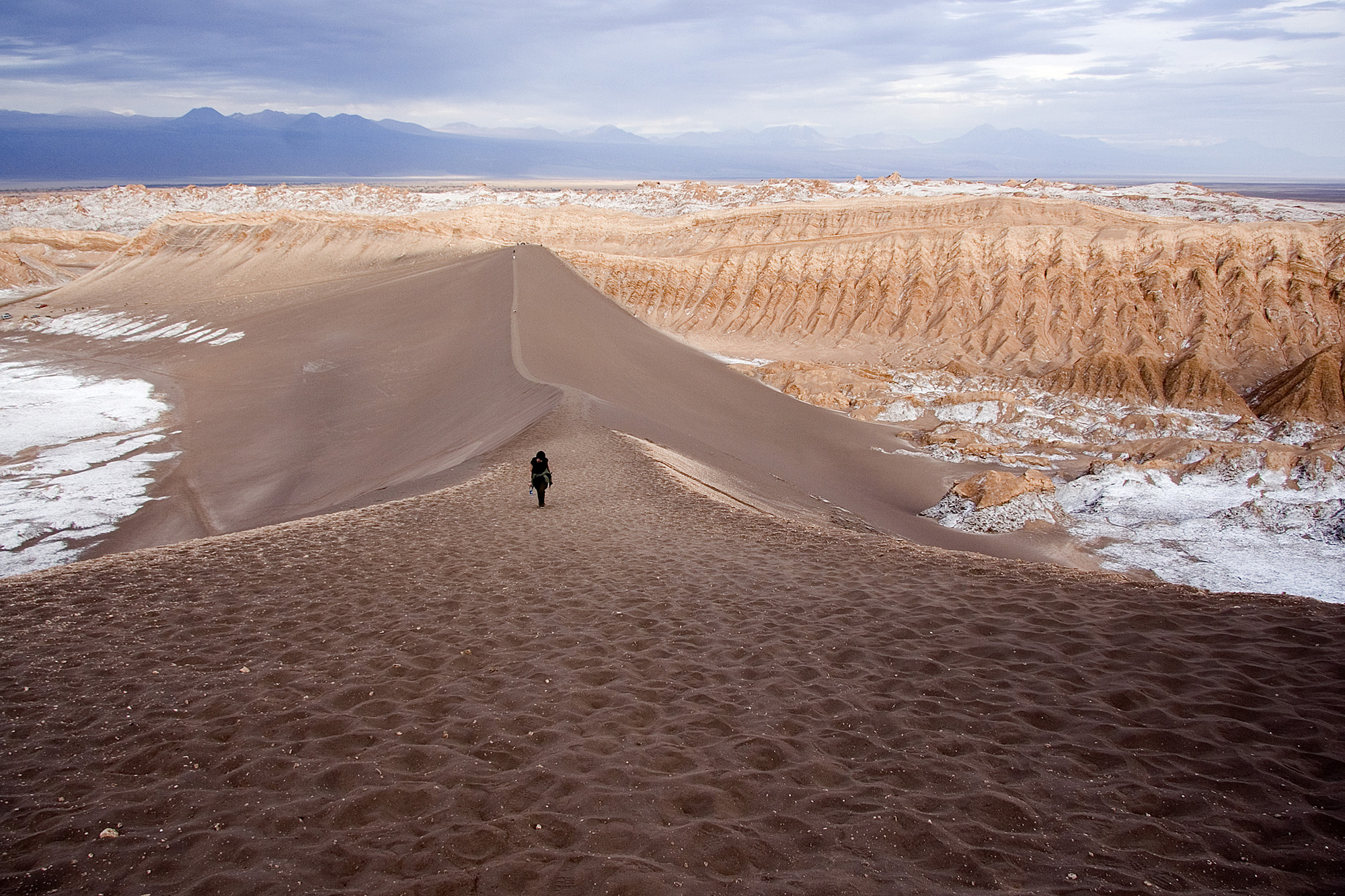 Valley of the Moon, Nortern Chile.